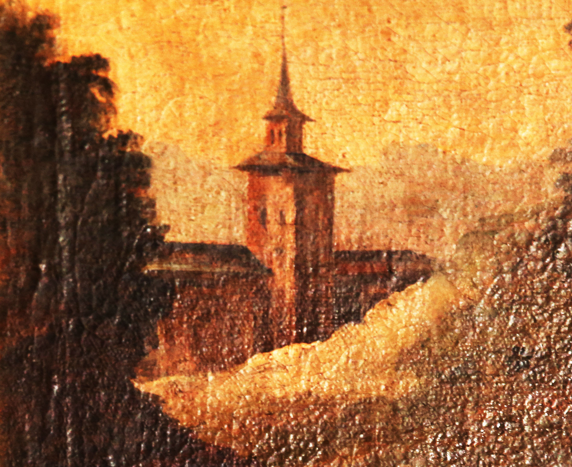 Former altarpiece (Detail) of Chapel St. Nikolaus in Sechtem, Straßburger Straße